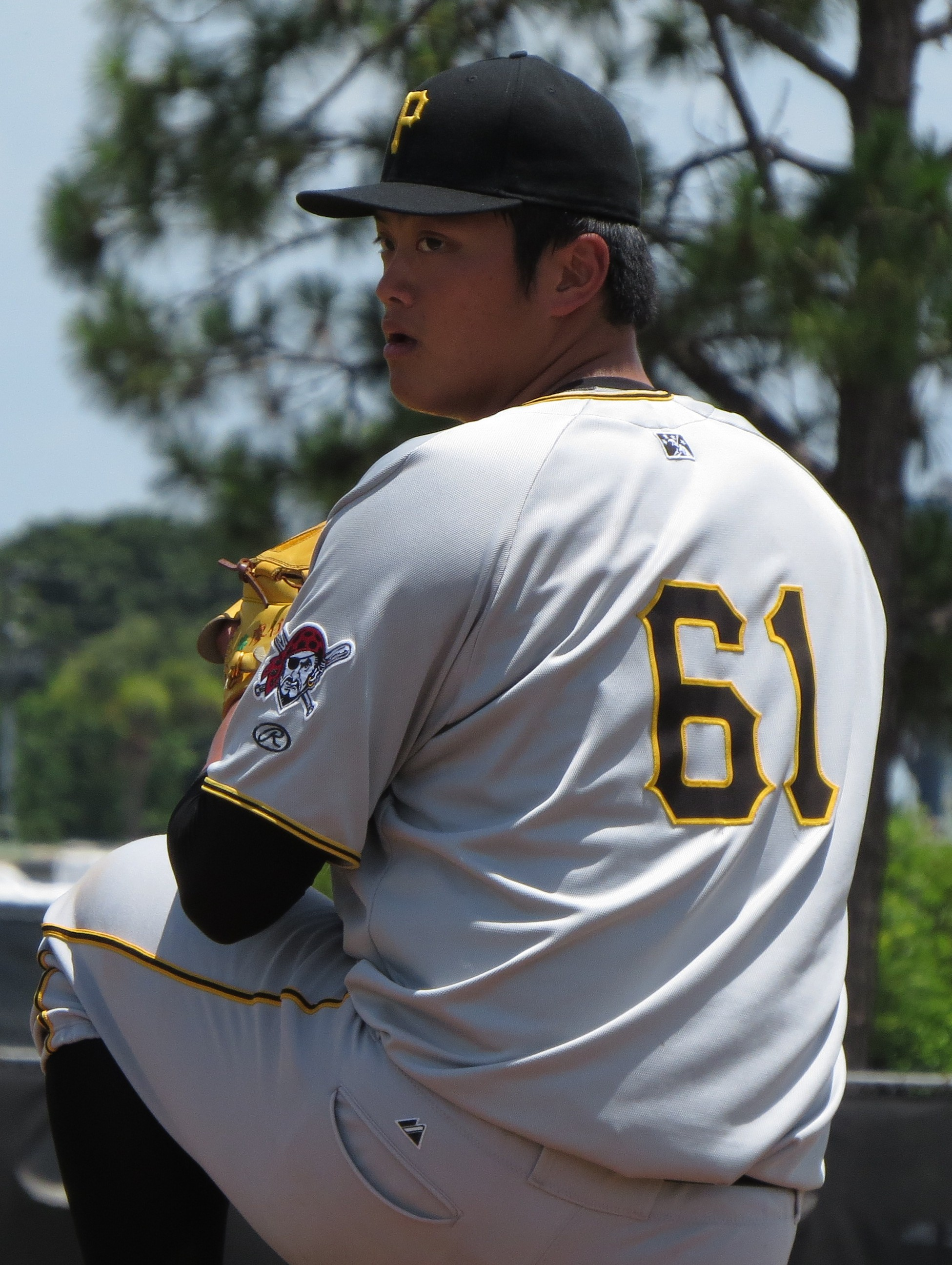 Jen-Lei Liao with the Pittsburgh Pirates